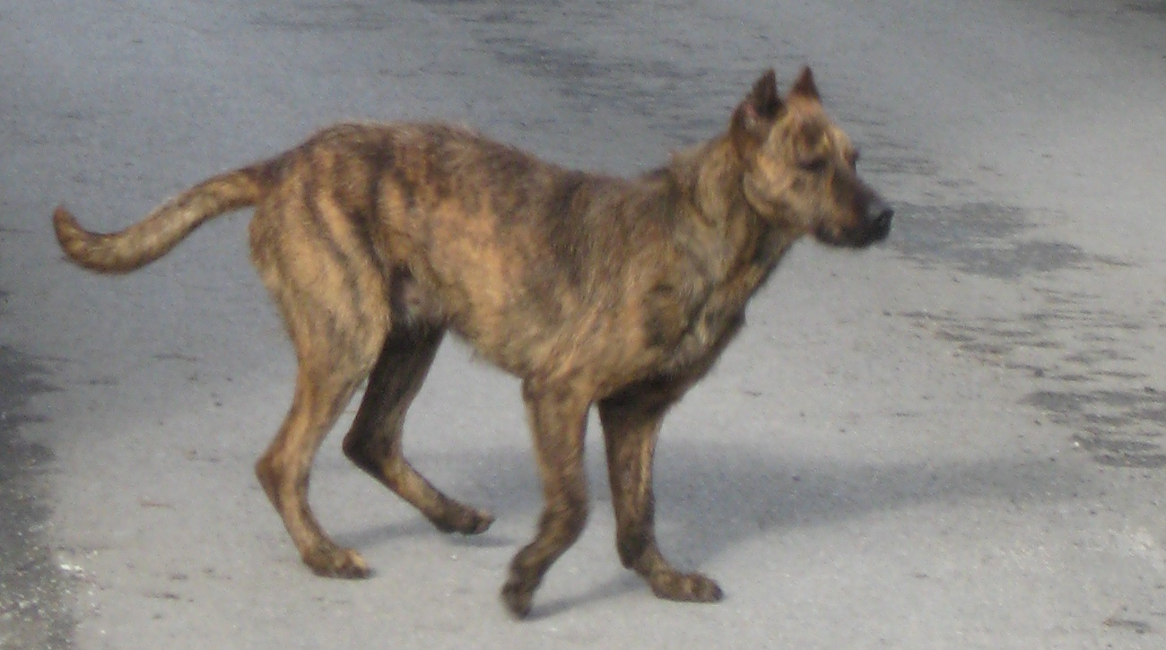 Villano de las Encartaciones breed dog in Turtziotz / Trucios, Biscay.